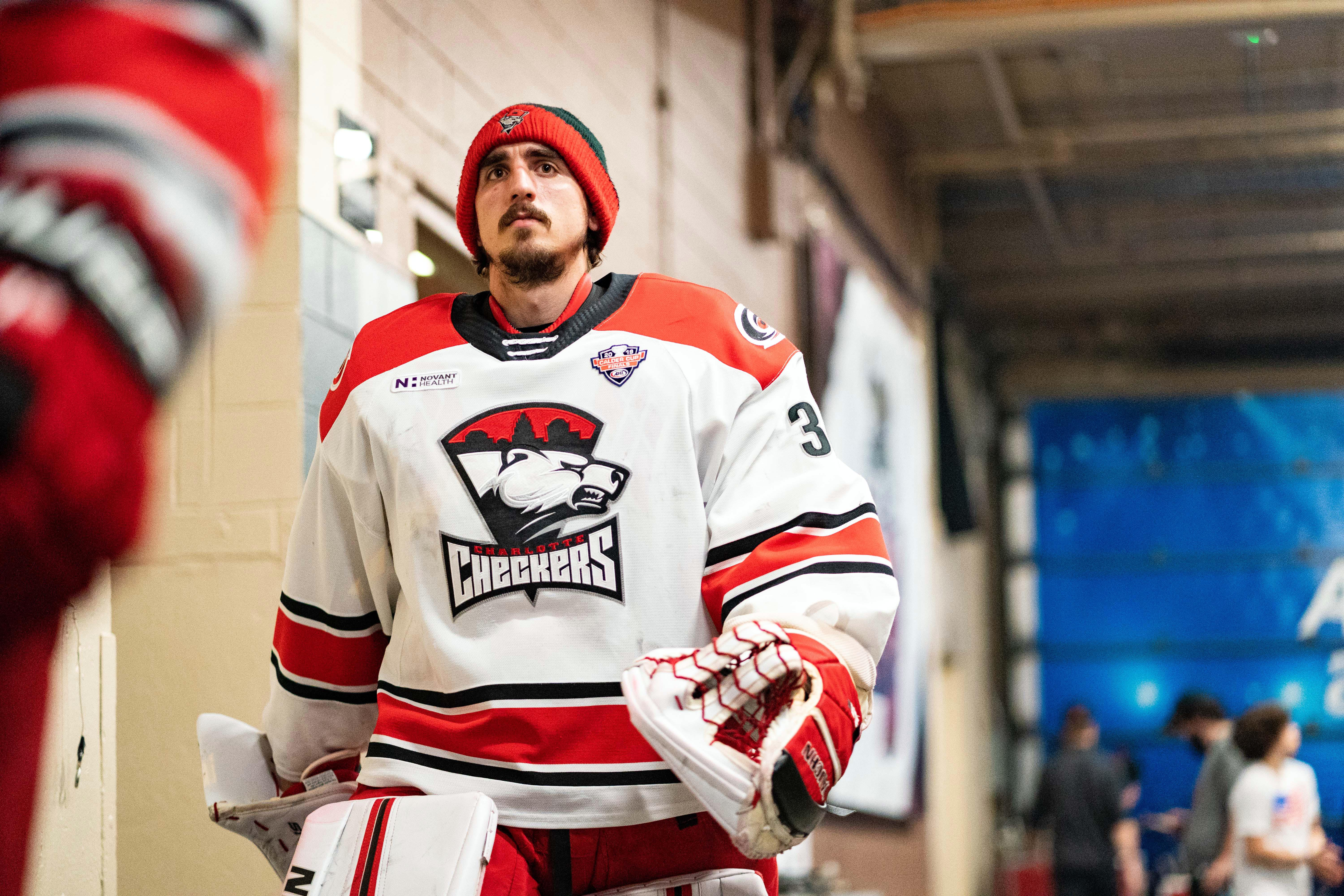 Photo: Jacob Kupferman